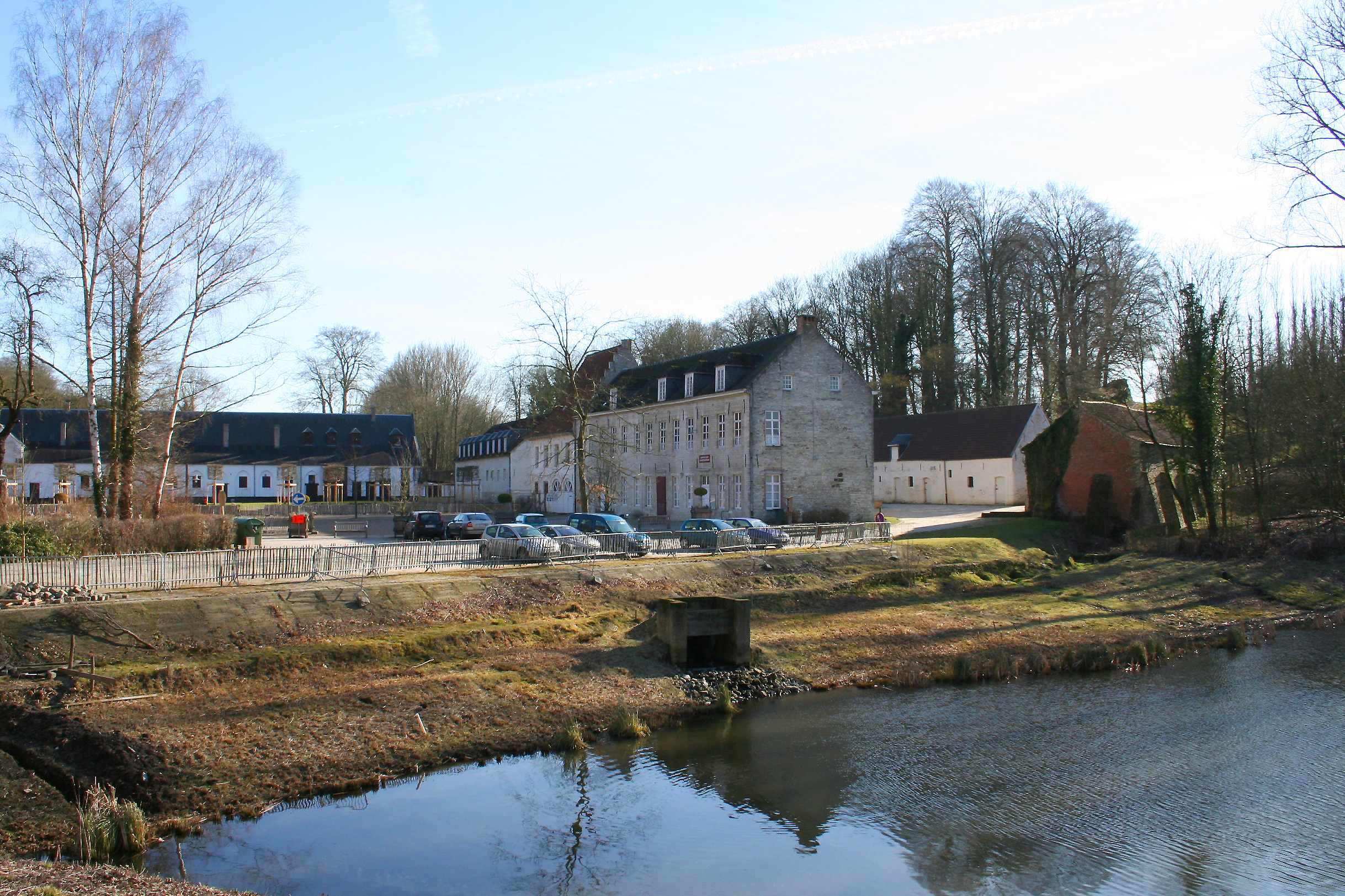 Auderghem (Belgium), the pond "Étang Long" and the buildings of the Rouge-Cloître (Red Cloister) Abbey founded in the XIVth century by the hermit Egide Olivier and the canon Guillaume Daniels.